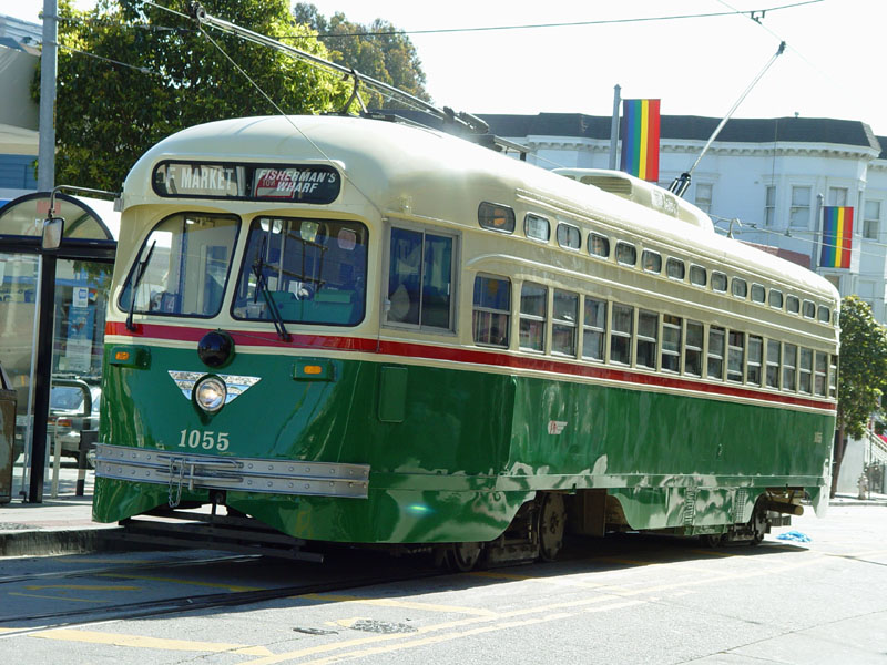 Historic car no. 1055 (original model from Philadelphia) Market at Castro San Francisco, CA ______________________________________ Built 1948. Served Philadelphia 1948-88. Purchased by Muni 1992. Exterior pain design: Philadelphia (Postwar). The ‘City of Brotherly Love’ first ran PCC streetcars in 1938 (Muni No. 1060 wears the original silver paint scheme). After World War II, Philadelphia Transportation Co. (PTC) ordered two more batches of new PCCs. This car, now Muni No. 1055, was delivered in 1948 wearing this new livery of green, cream, and red. The city later added secondhand cars from Kansas City and St. Louis in the 1950s. Taken over by the public authority SEPTA in 1968, PCCs disappeared in Philly during the early 1990s. Muni bought and rebuilt 14 of SEPTA’s PCCs to inaugurate F-line service in 1995. Inspired in part by the F-line, Philadelphians then demanded restoration of some PCC service in their own town, and got it in 2005 on the 15-Girard line, with the modernized PCCs painted in this historic livery. More Info... Car No. 1007 Car No. 1010